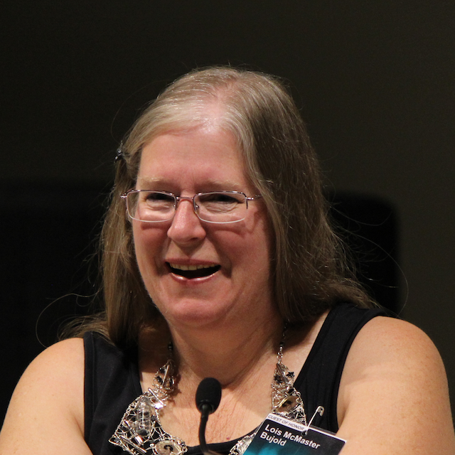 Lois McMaster Bujold at Finncon 2012 in Tampere, Finland.